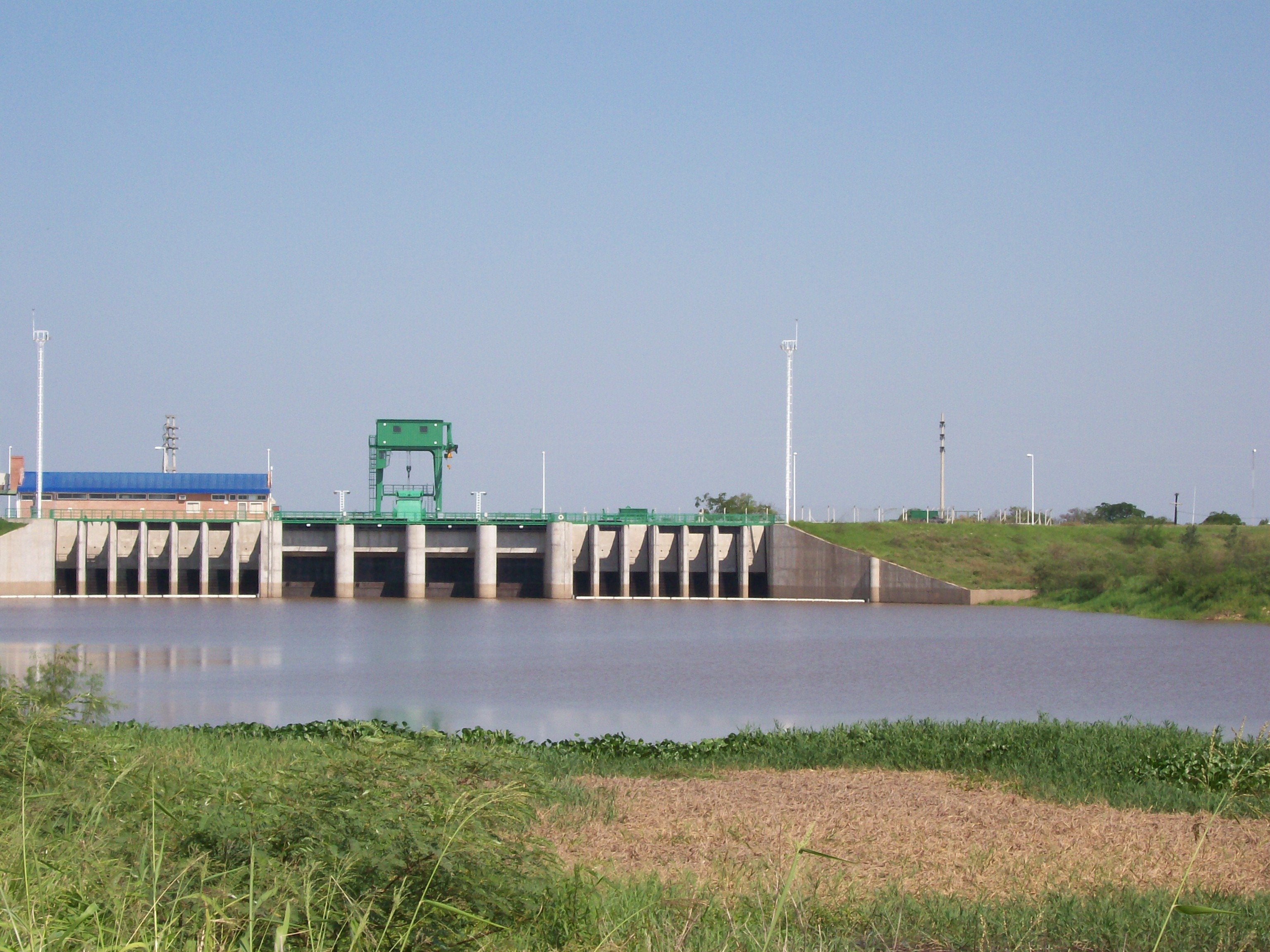 Dam over Río Negro (Black River) that protects Great Resistencia (Chaco Province, Argentina) from flooding. It's by Province Road 63 in Barranqueras